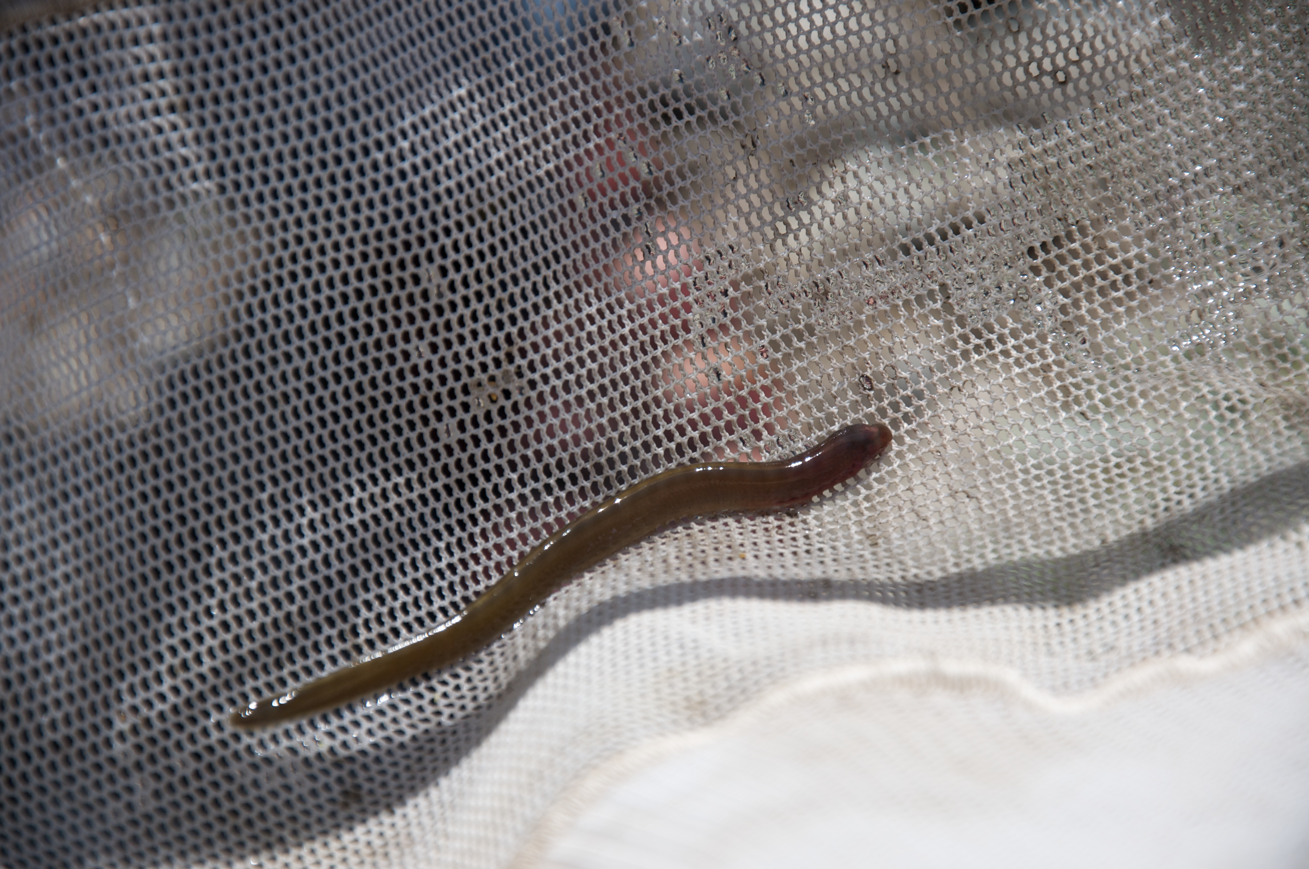 Pacific lamprey, netted from the Middle Fork John Day River in Oregon.